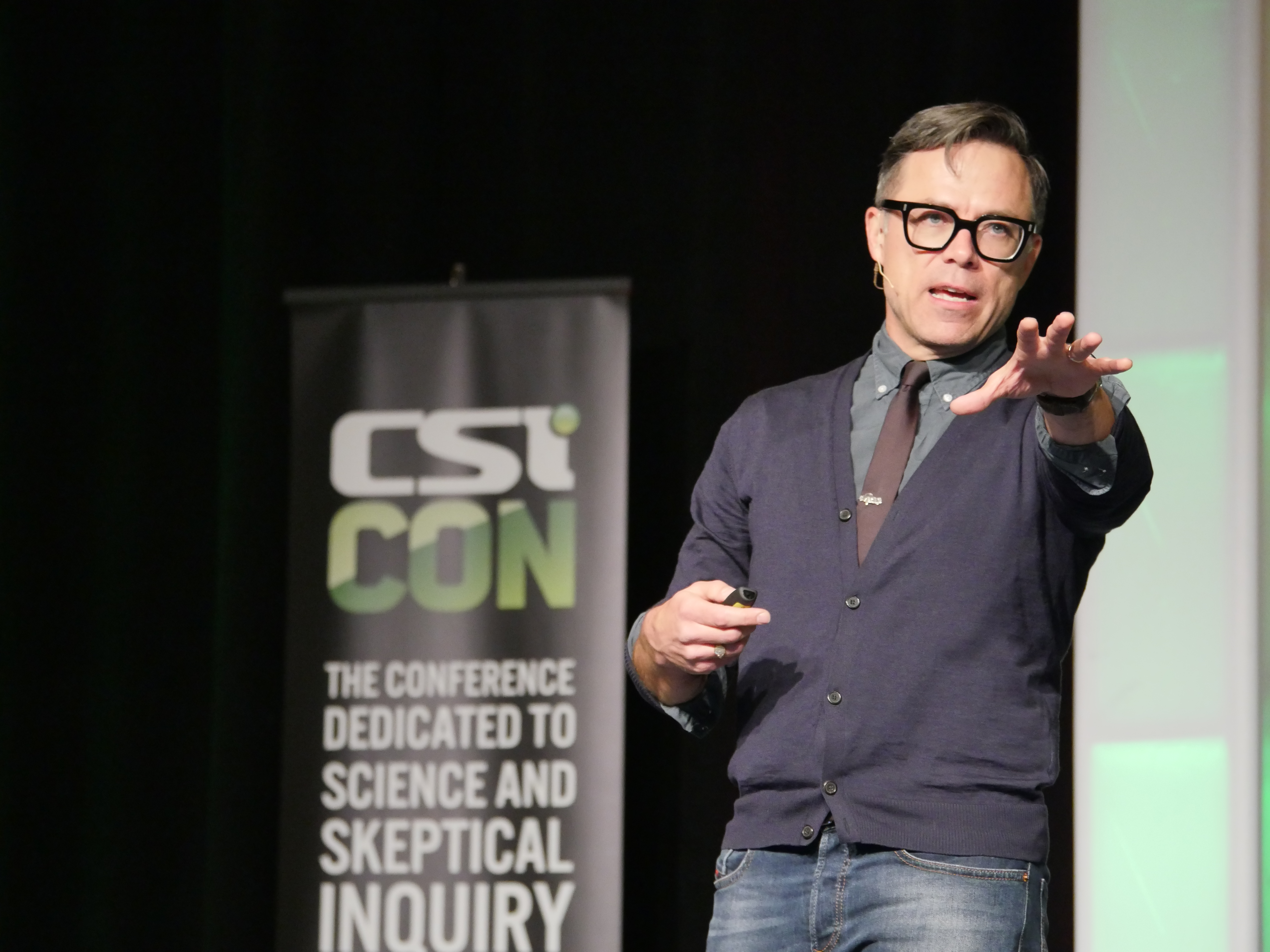 Timothy Caulfield CSICon 2018 Scienceploitation Pop Culture’s Assault on Science (and why it matters)